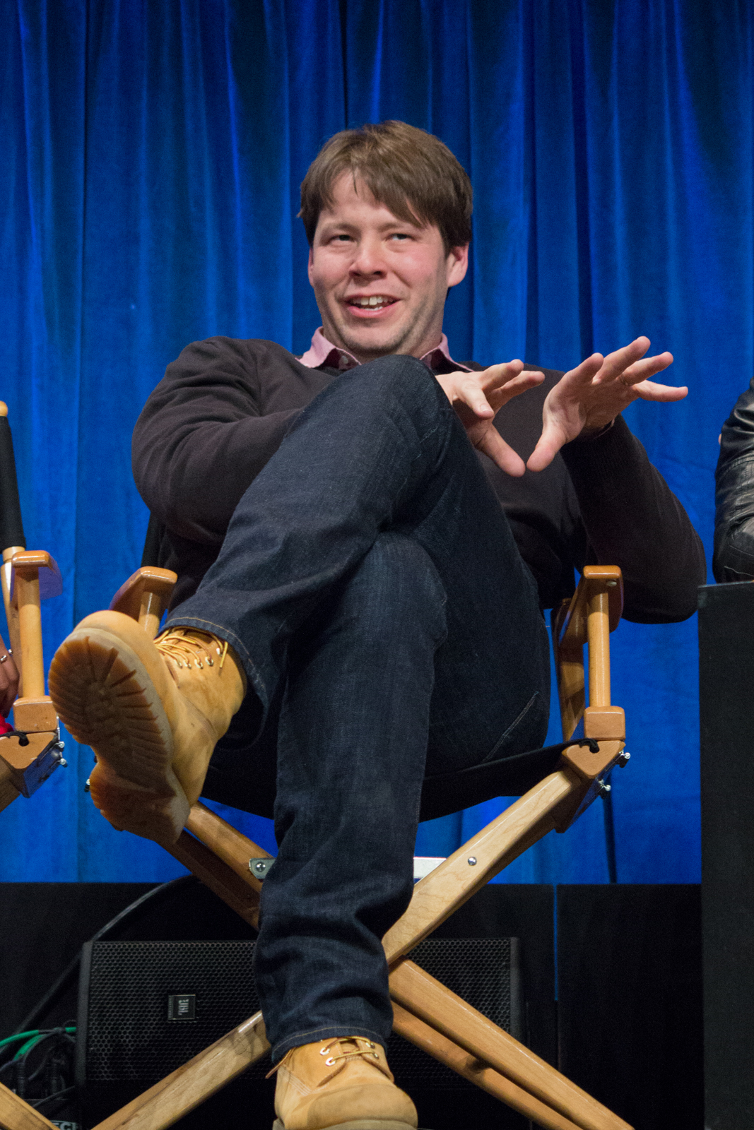 Actor Ike Barinholtz at PaleyFest 2013's panel for "The Mindy Project"